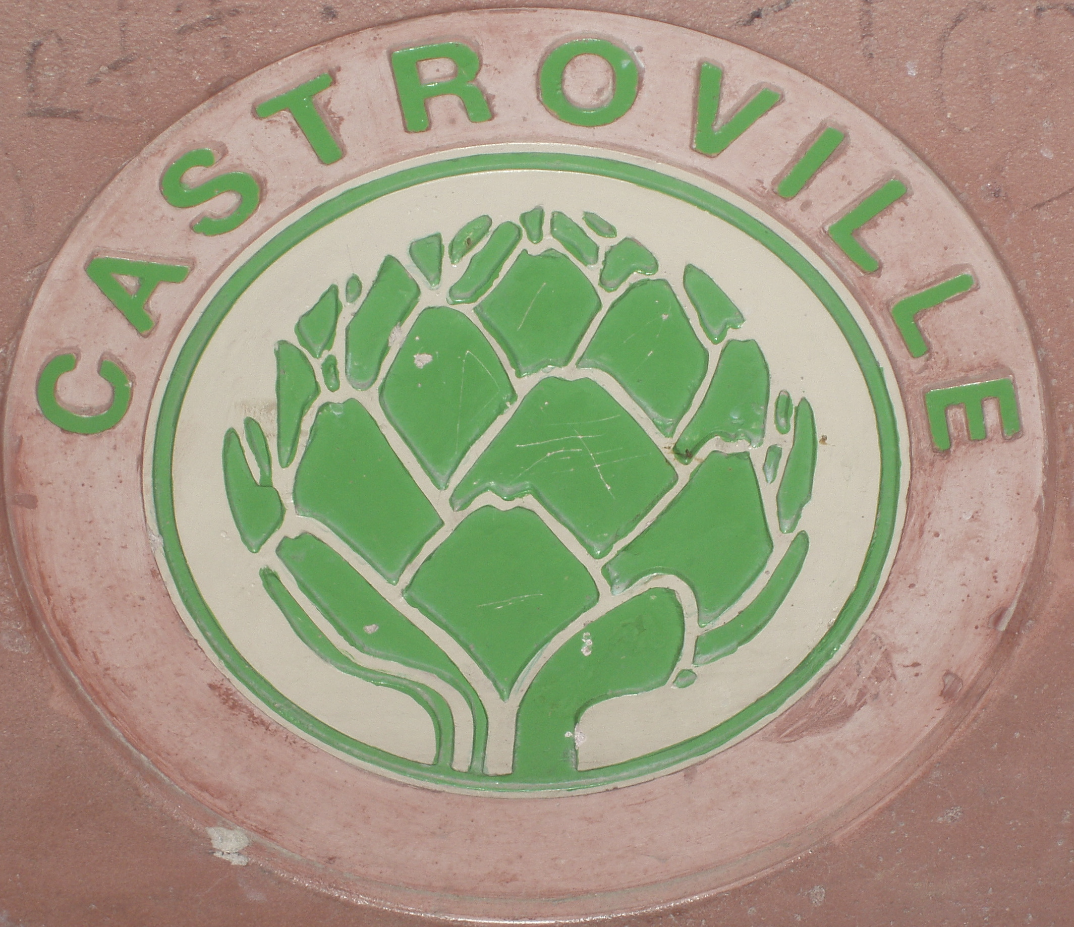 Bus stop bench city seal.